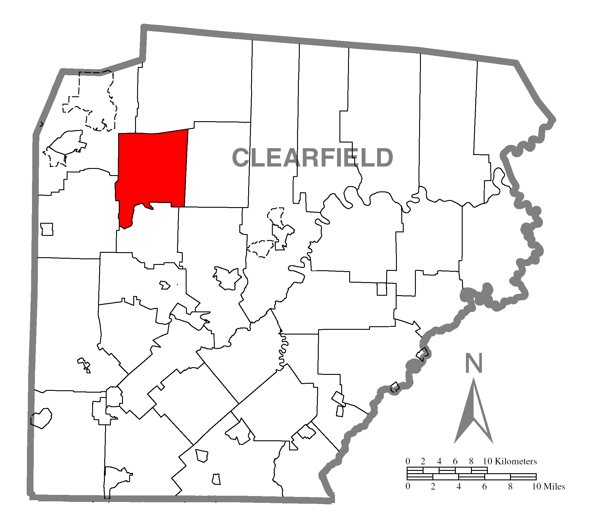 A map of Clearfield County showing Union Township, Pennsylvania (alternate) highlighted on the map.